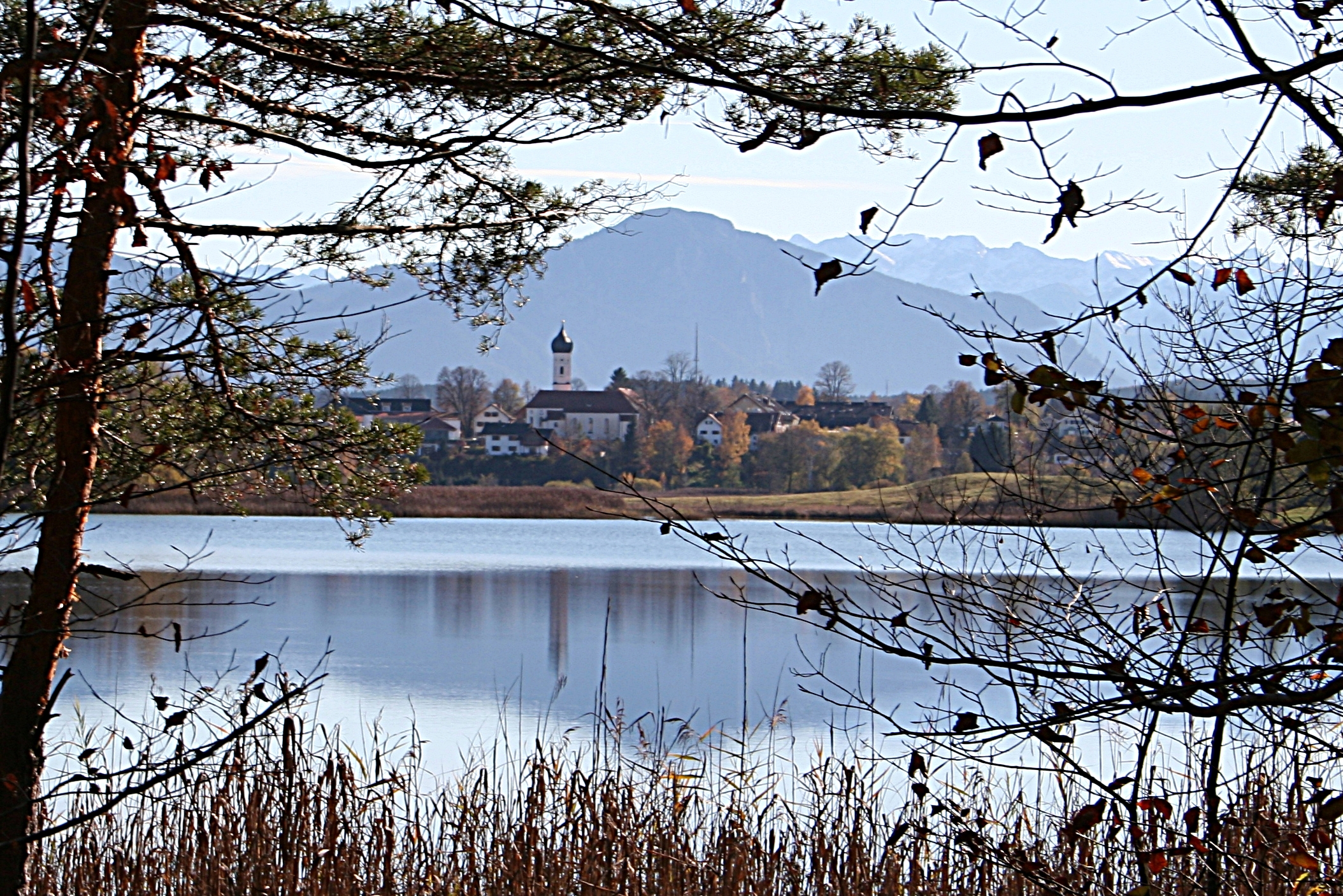 Iffeldorf – in the foreground the lake Fohnsee